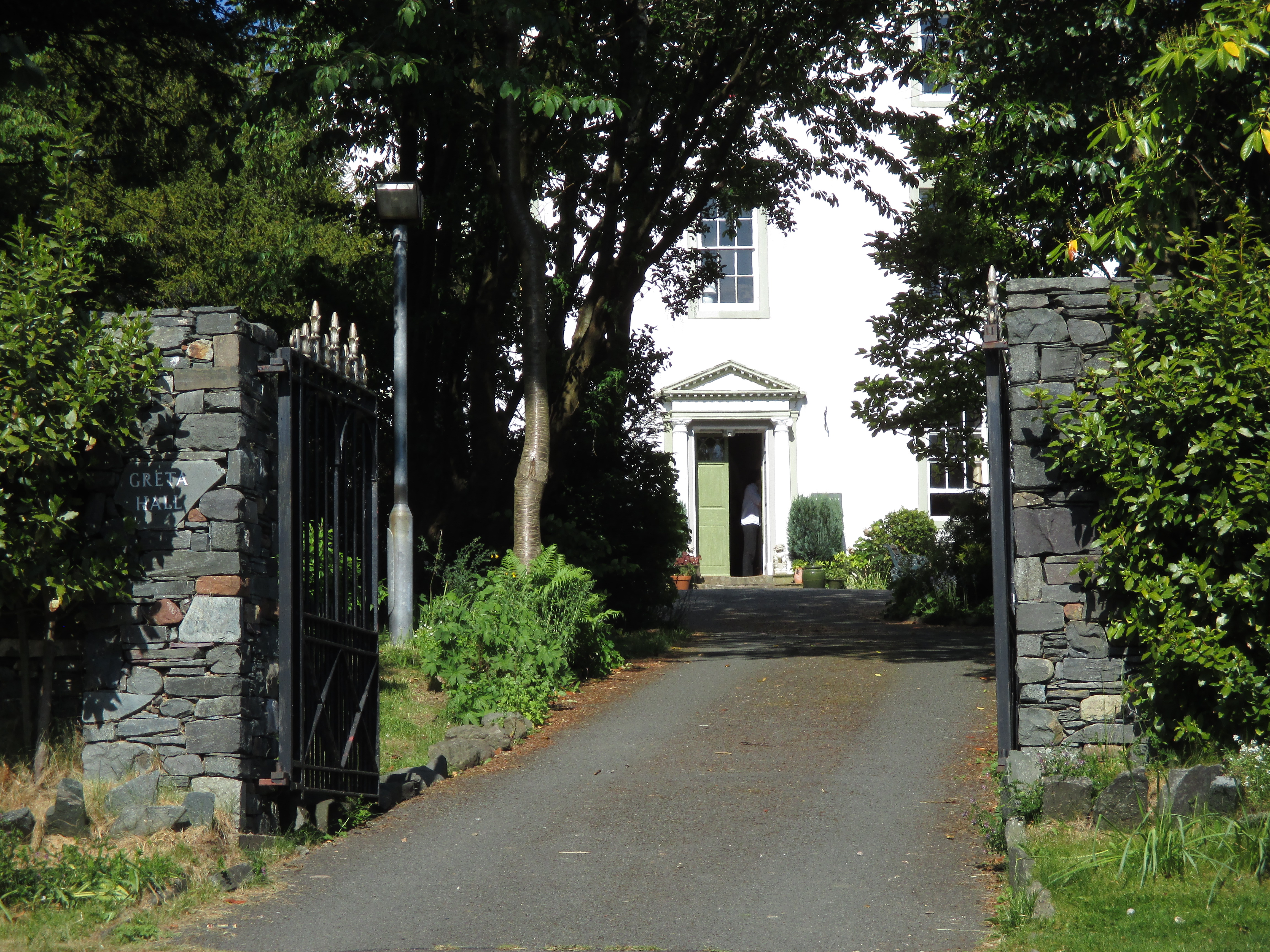 The gateway to Greta Hall, Keswick, Cumbria.